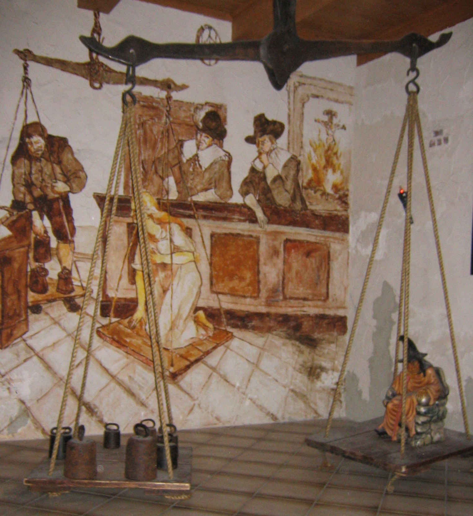 Weighing scale for witches museum in Freiburg im Breisgau